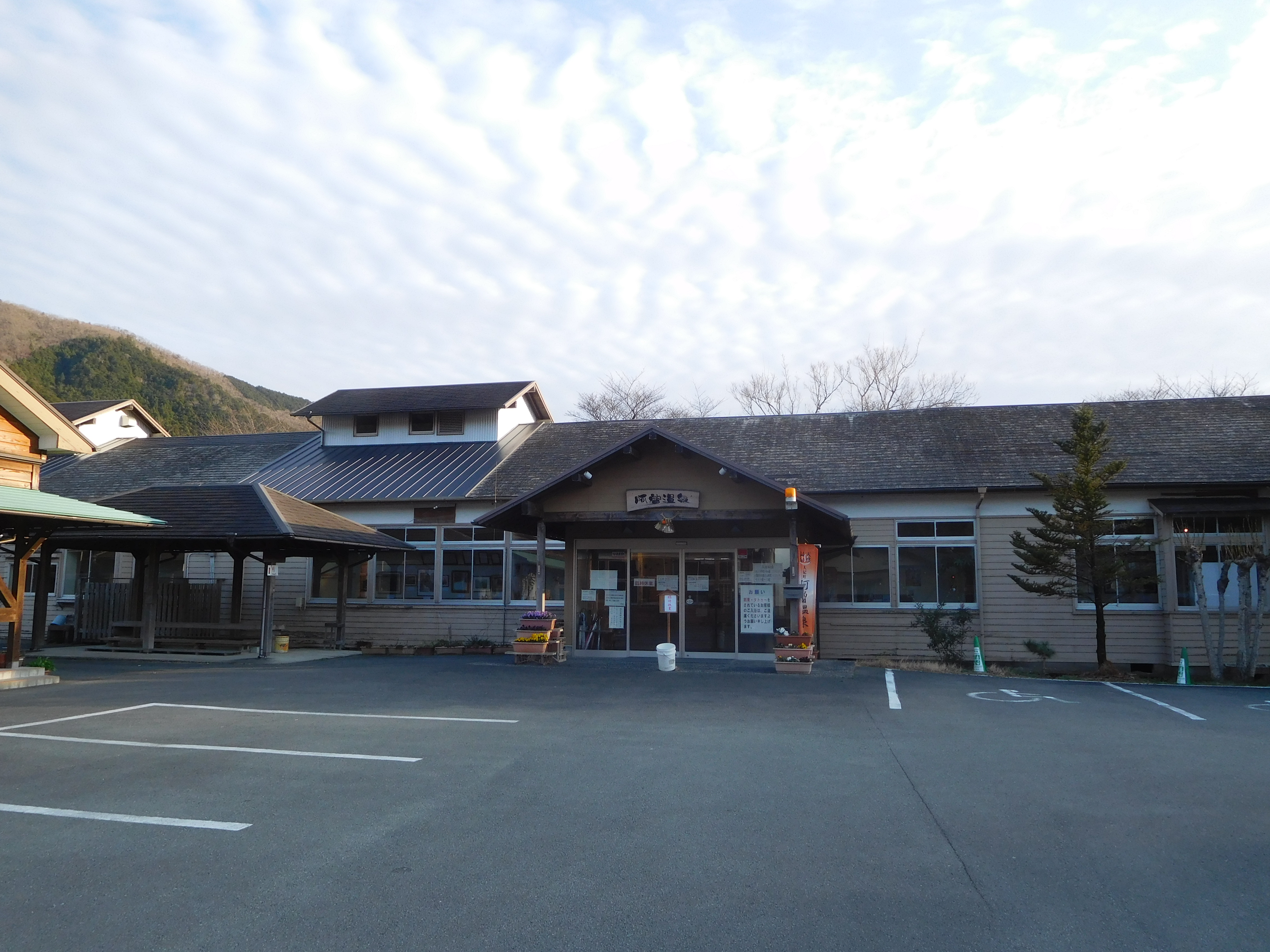 This is Aso Spa in Taiki, Mie, Japan. This building was used as an elementary school.